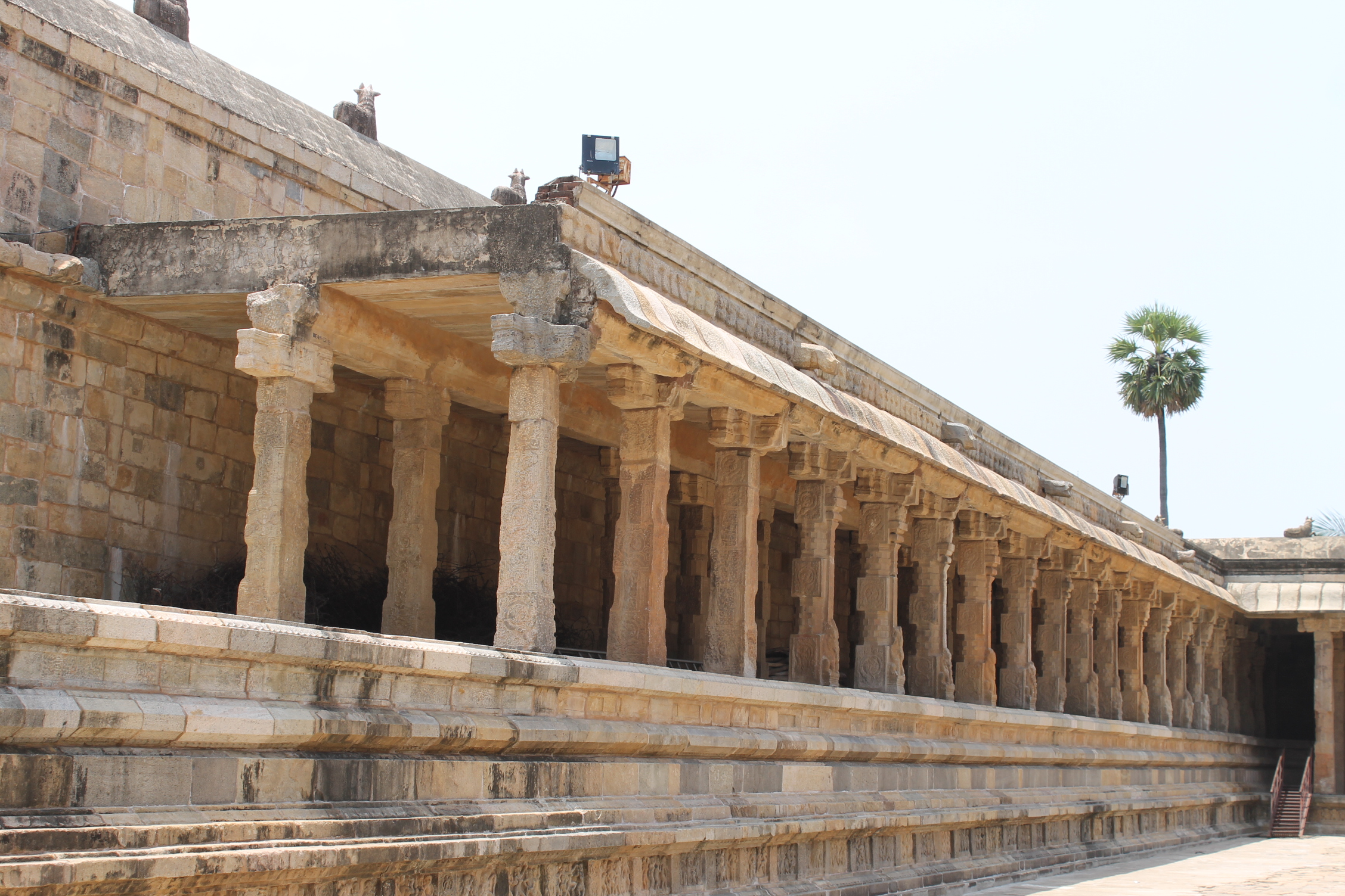 "A wonderful mandapam of Airavatesvara Temple". Location: Chatram, Darasuram, near Kumbakonam, Thanjavur District, Tamil Nadu, India.